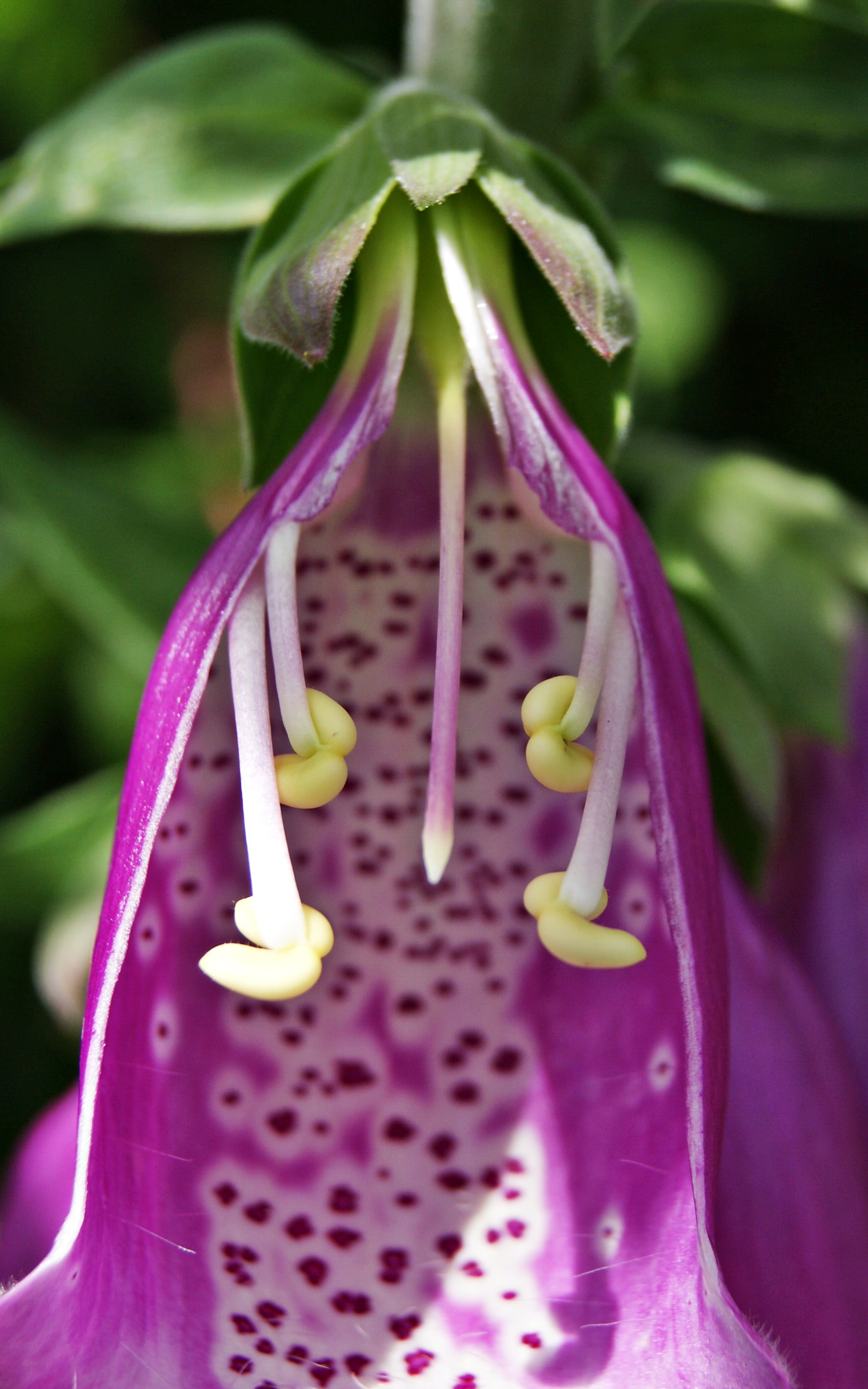 Gynoecium and stamina of Digitalis purpurea (foxglove).